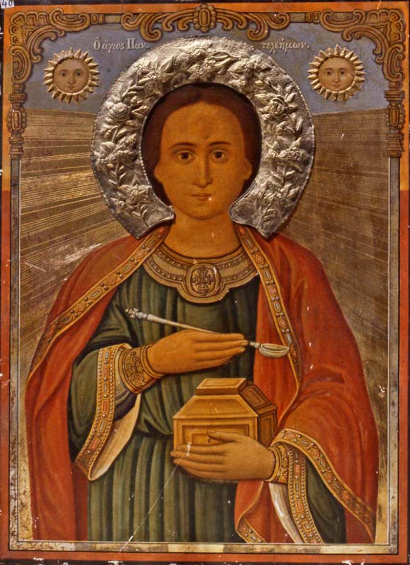 St. Stephen Arnea Church, St. Panteleimon Icon